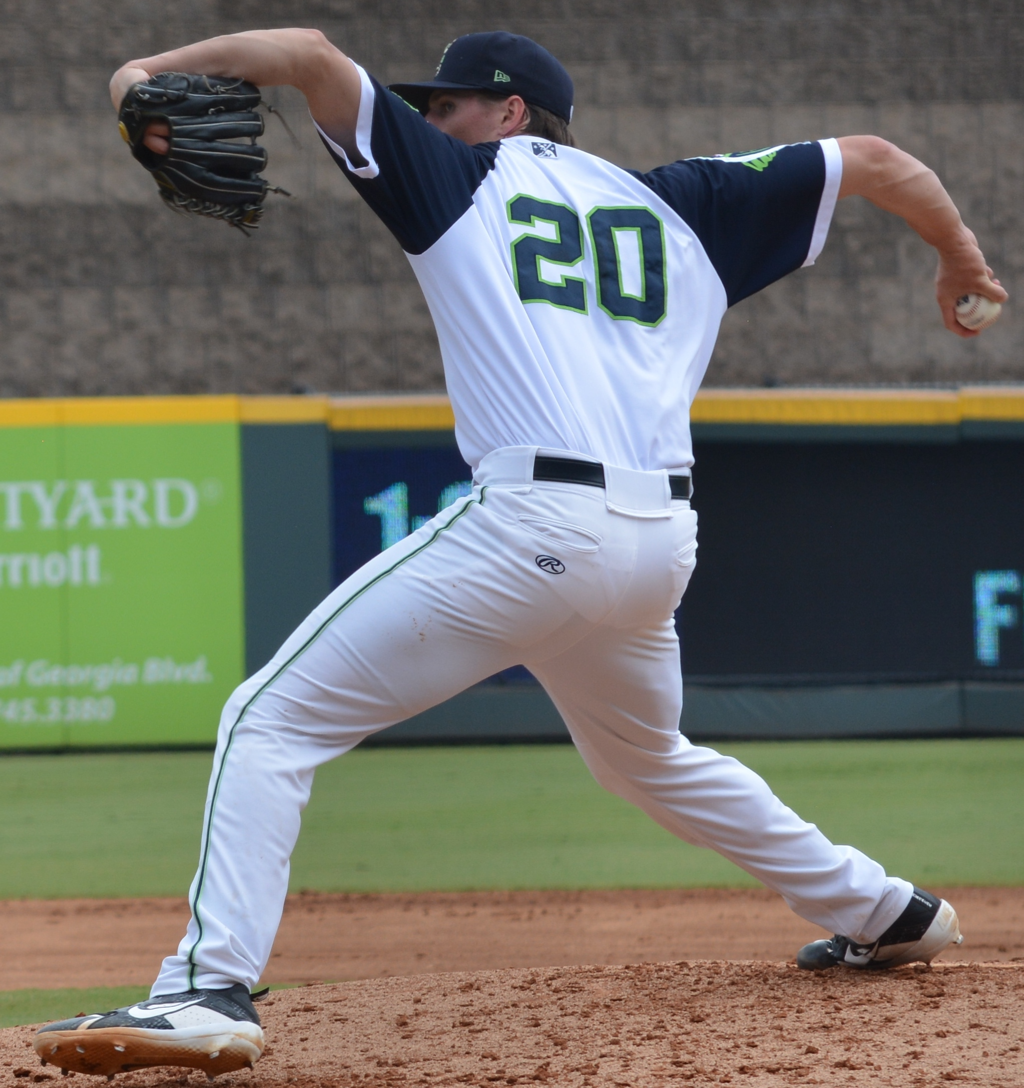 Kyle Wright delivers a pitch for the Gwinnett Stripers during a 2018 game at Coolray Field in Gwinnett, Georgia